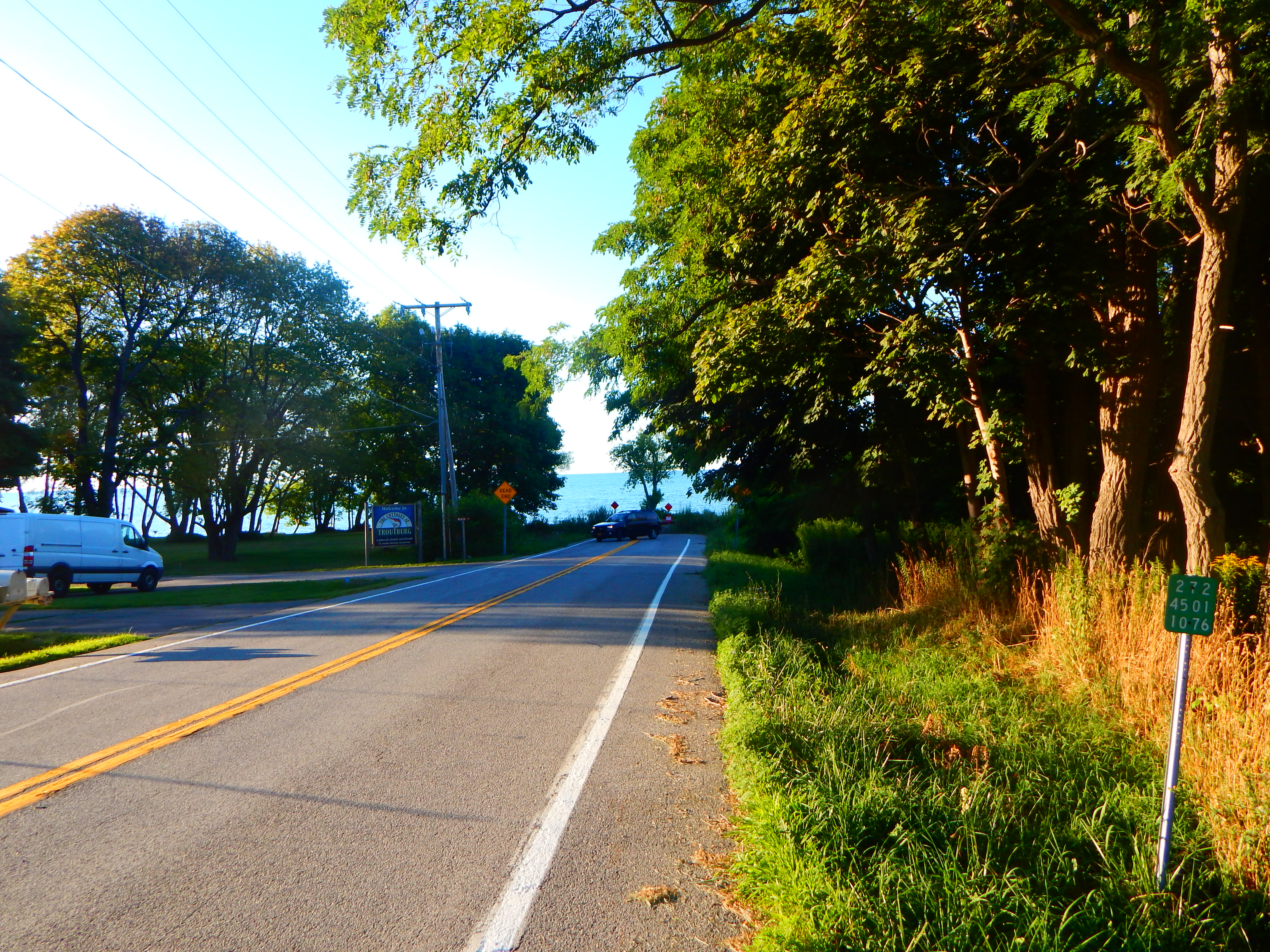 Route 272 approaching the shores of Lake Ontario from the Hamlin, New York side of the road.